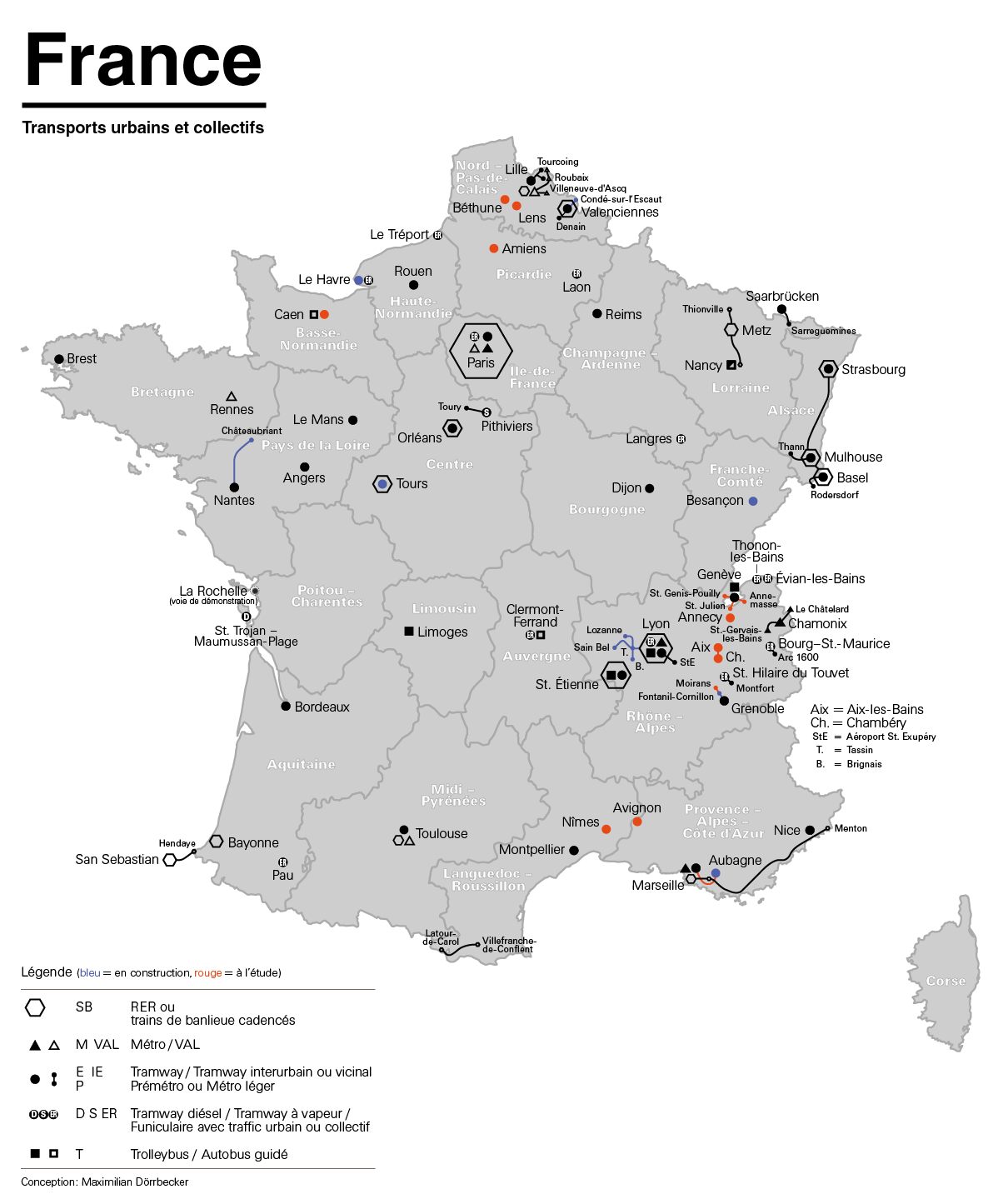 Map of fixed-route public transport systems (suburban railways, Rapid Transit and Light Rail Transit systems, tram, trolleybus) in France